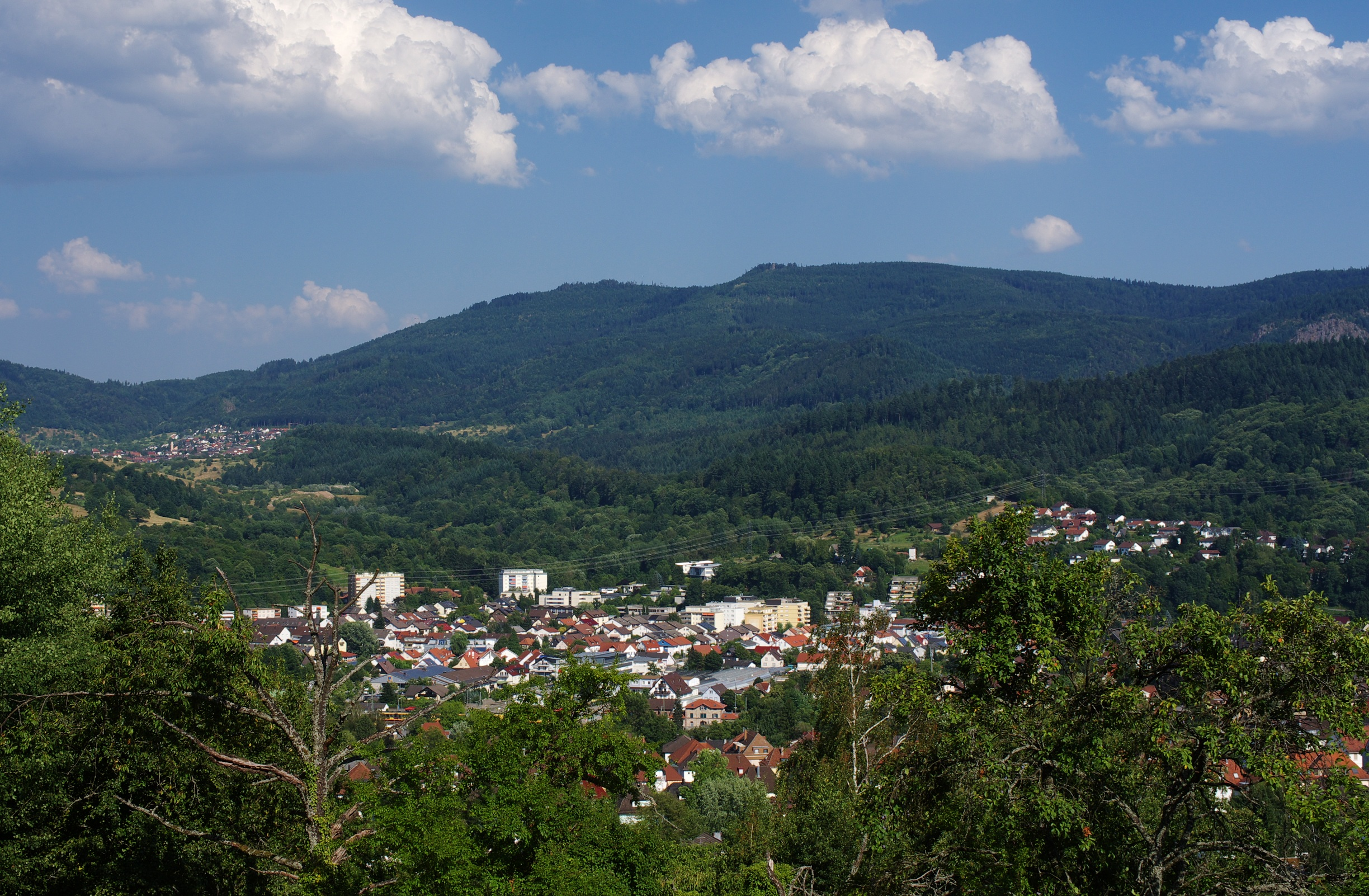 Looking over Gernsbach to the Teufelmühle, a mountain of the northern Black Forest. Loffenau is in the background on the left.